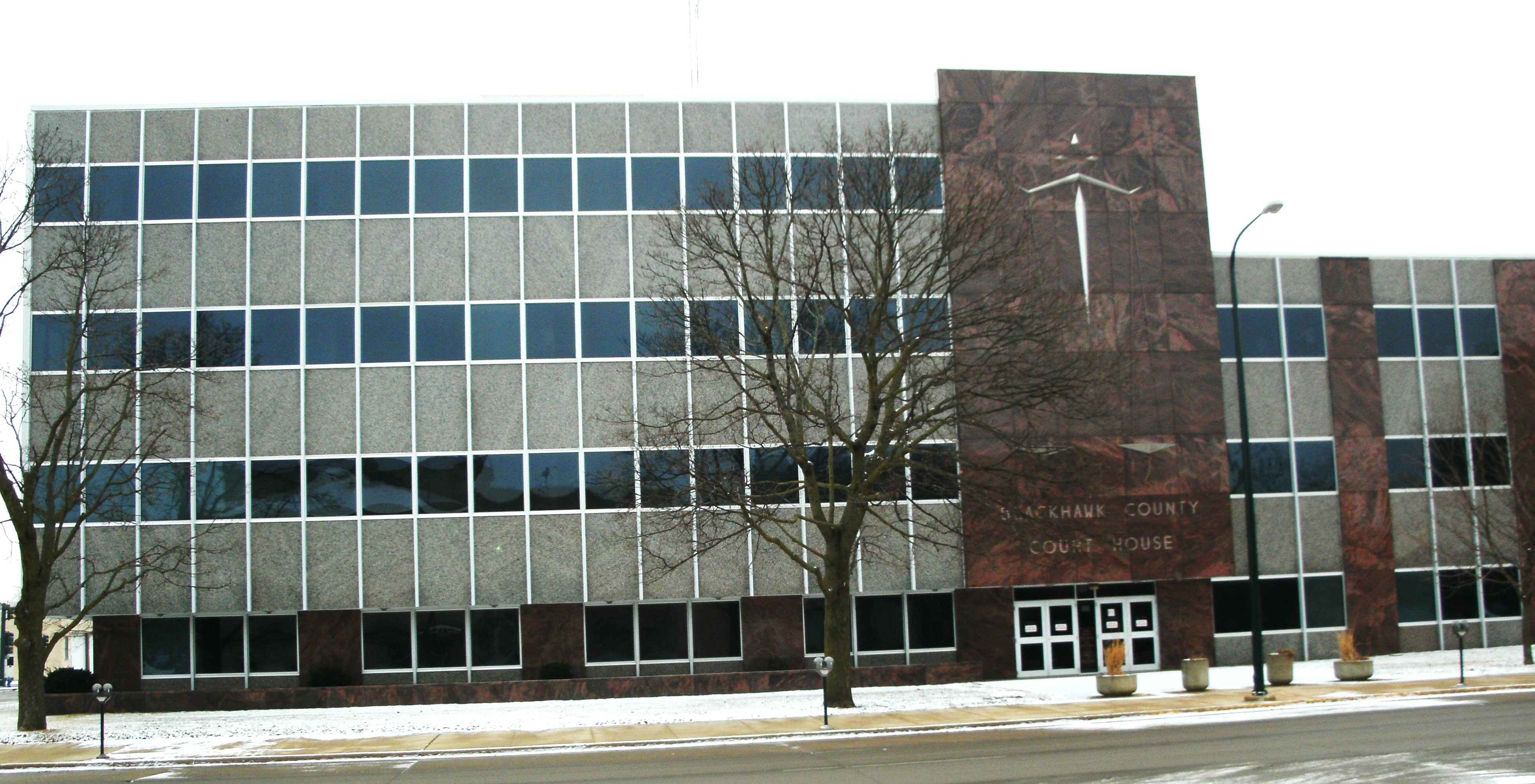 Black Hawk County Courthouse located at 316 East 5th Street in Waterloo, Black Hawk County, Iowa